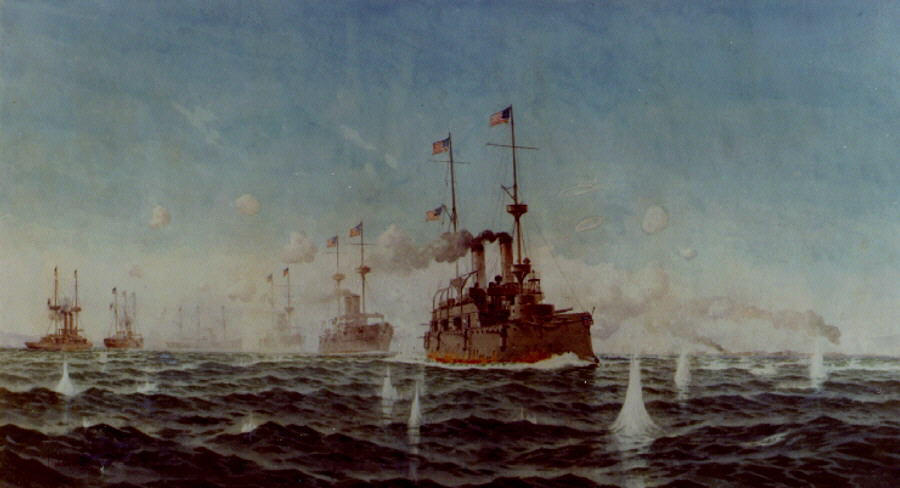 the U.S. battle line turning while in action, with USS Olympia leading.